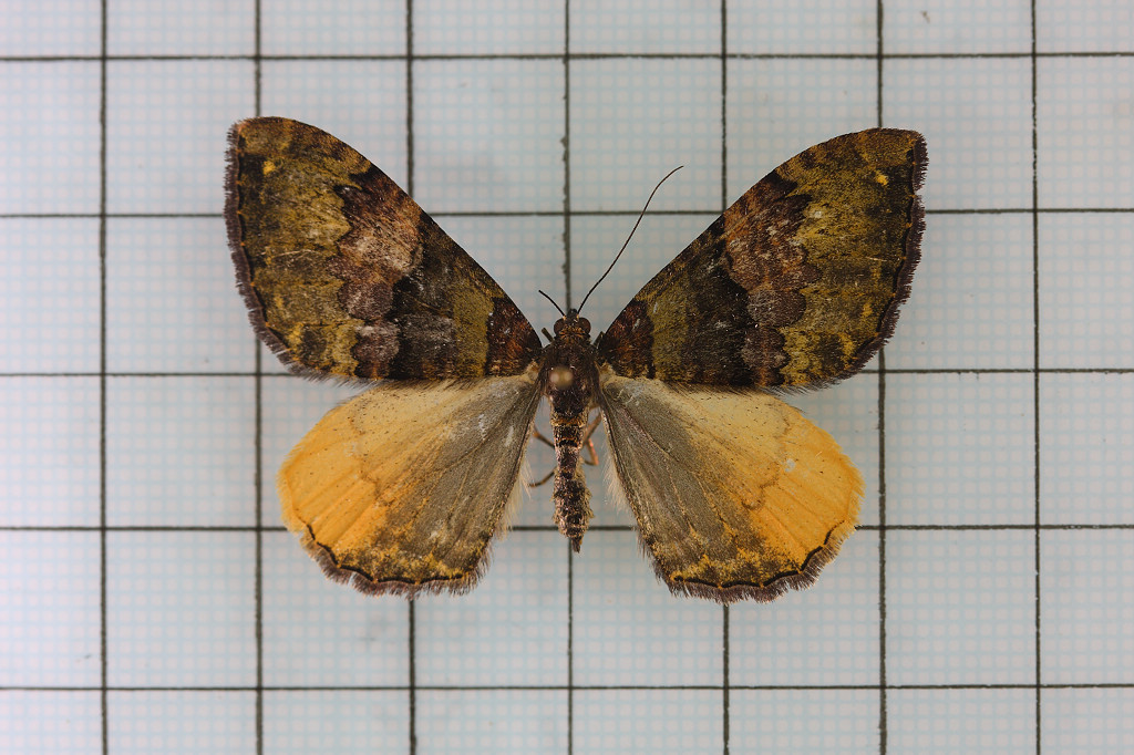 Photoscotosia insularis Bastelberger, 1909 島幅尺蛾 鞍I:P.55,Pl.13-6 Endemic Species of Taiwan